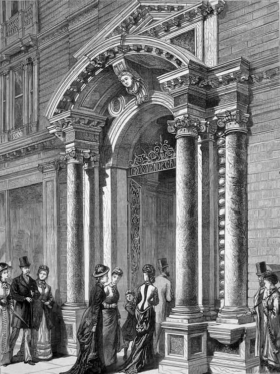 Photograph of The Graphic showing the Grosvenor Gallery